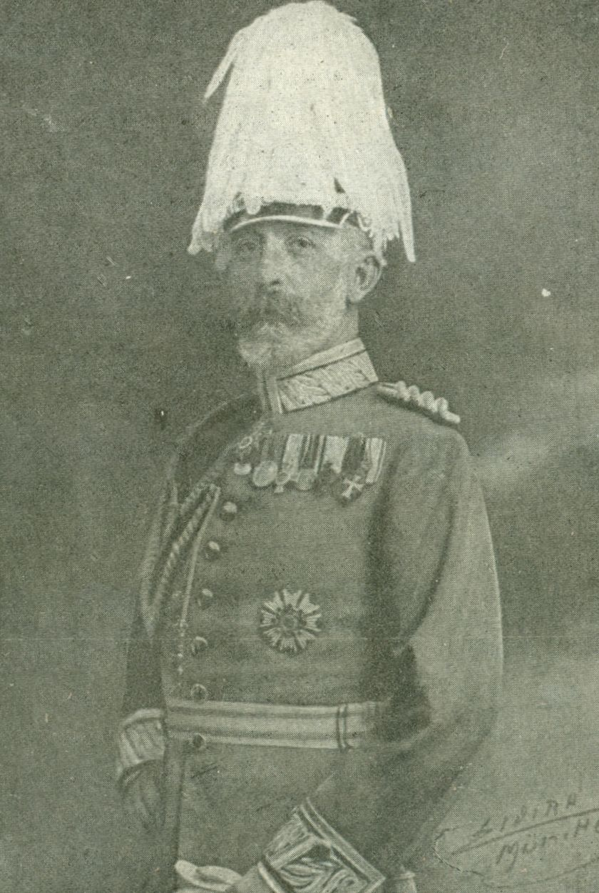 General Graf Bothmer